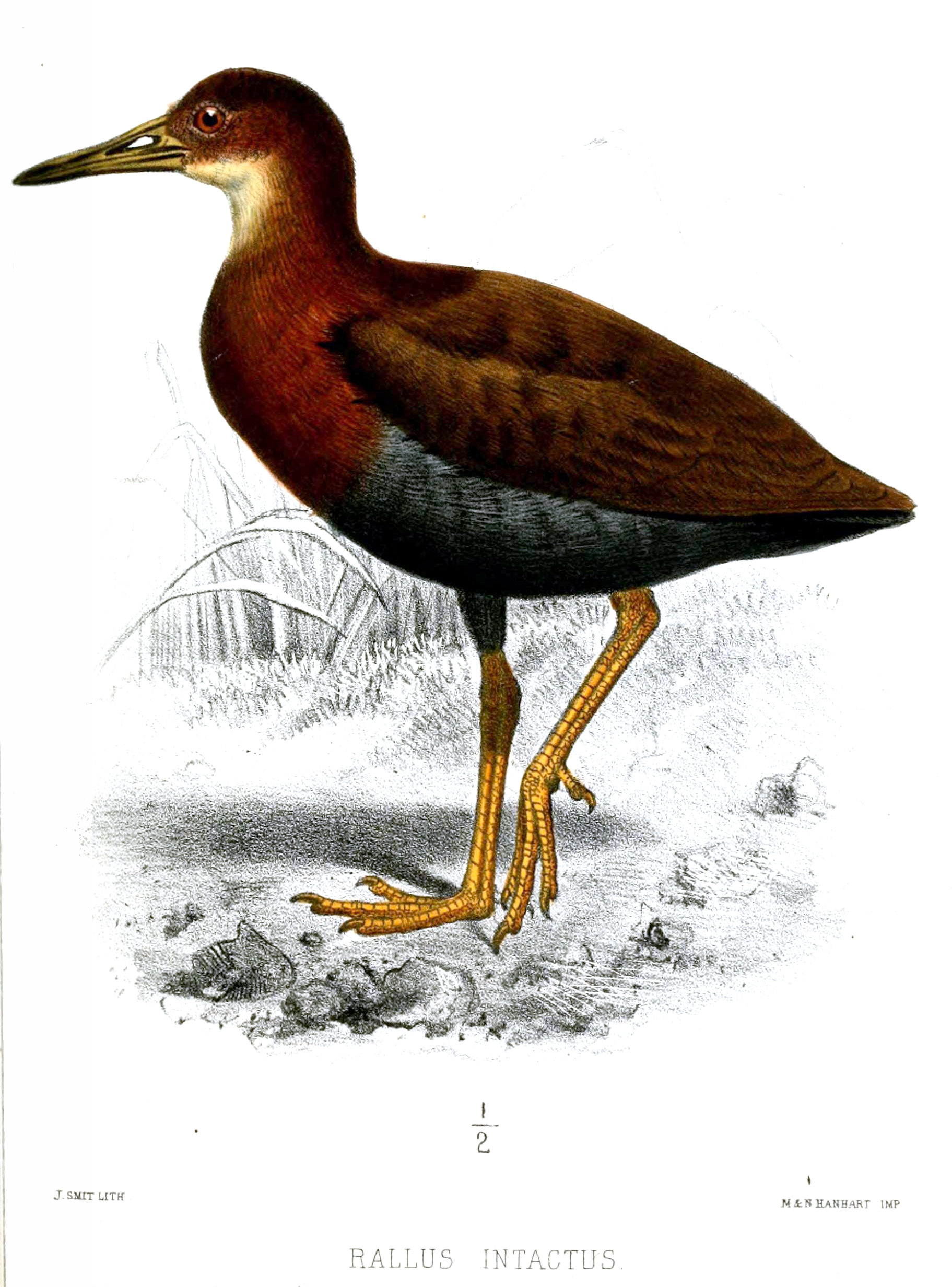 Rallus intactus = Gymnocrex plumbeiventris intactus